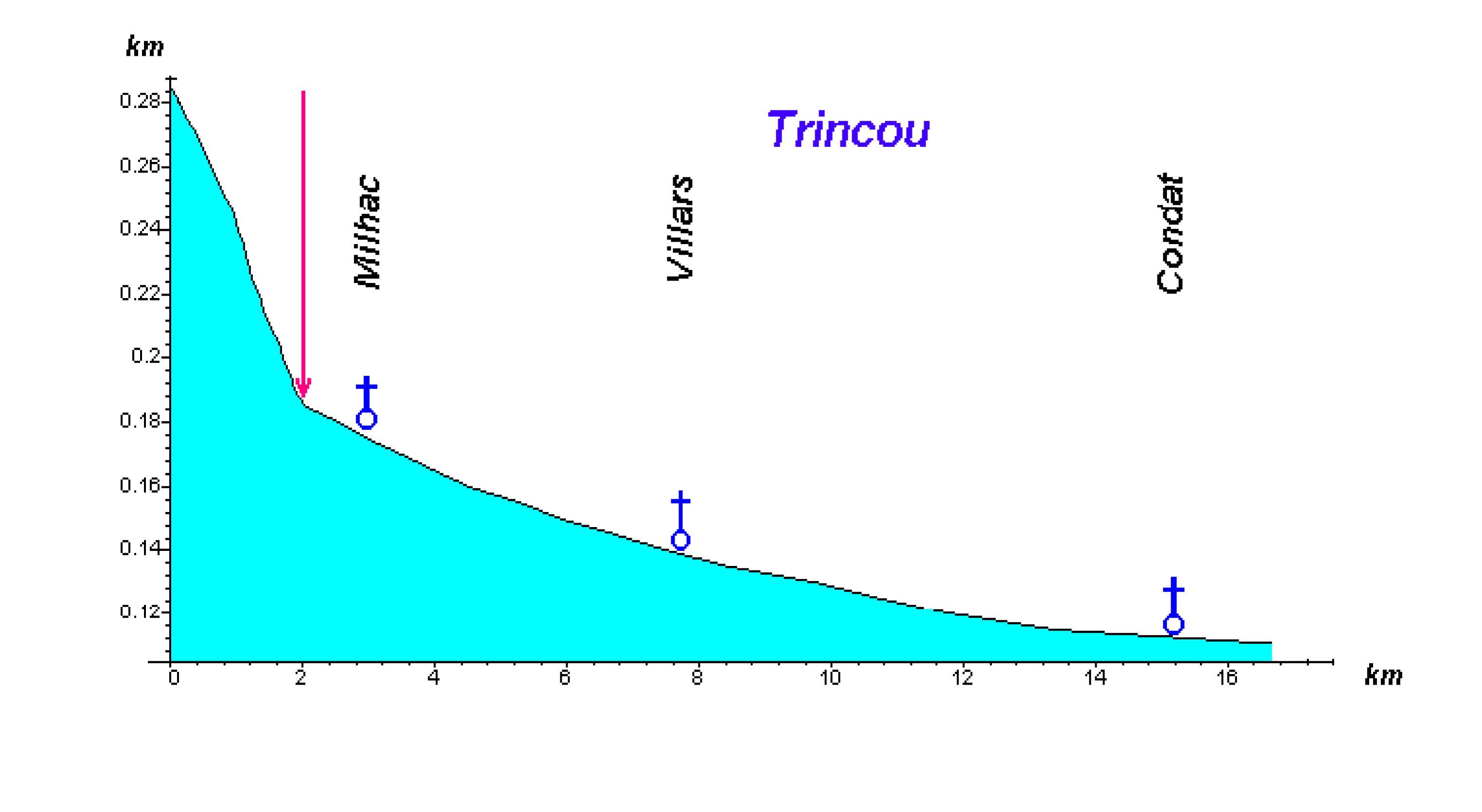 Profile of the Trincou River, Dordogne, France. The border fault of the Massif Central is clearly visible as the distinct break in slope.